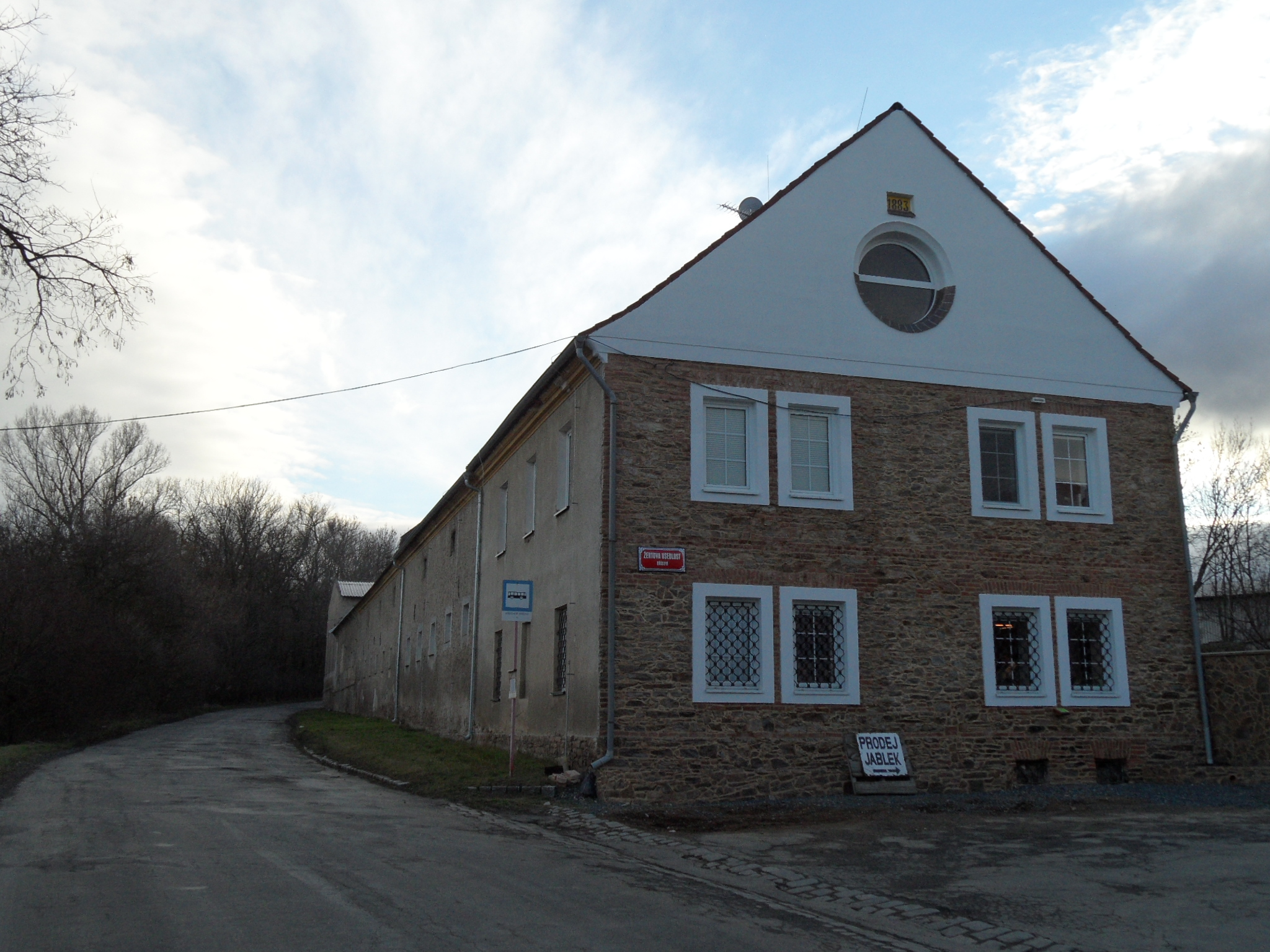 Bříství (Křečhoř) D. Žert's Homestead (originally stronghold), Kolín District, the Czech Republic.